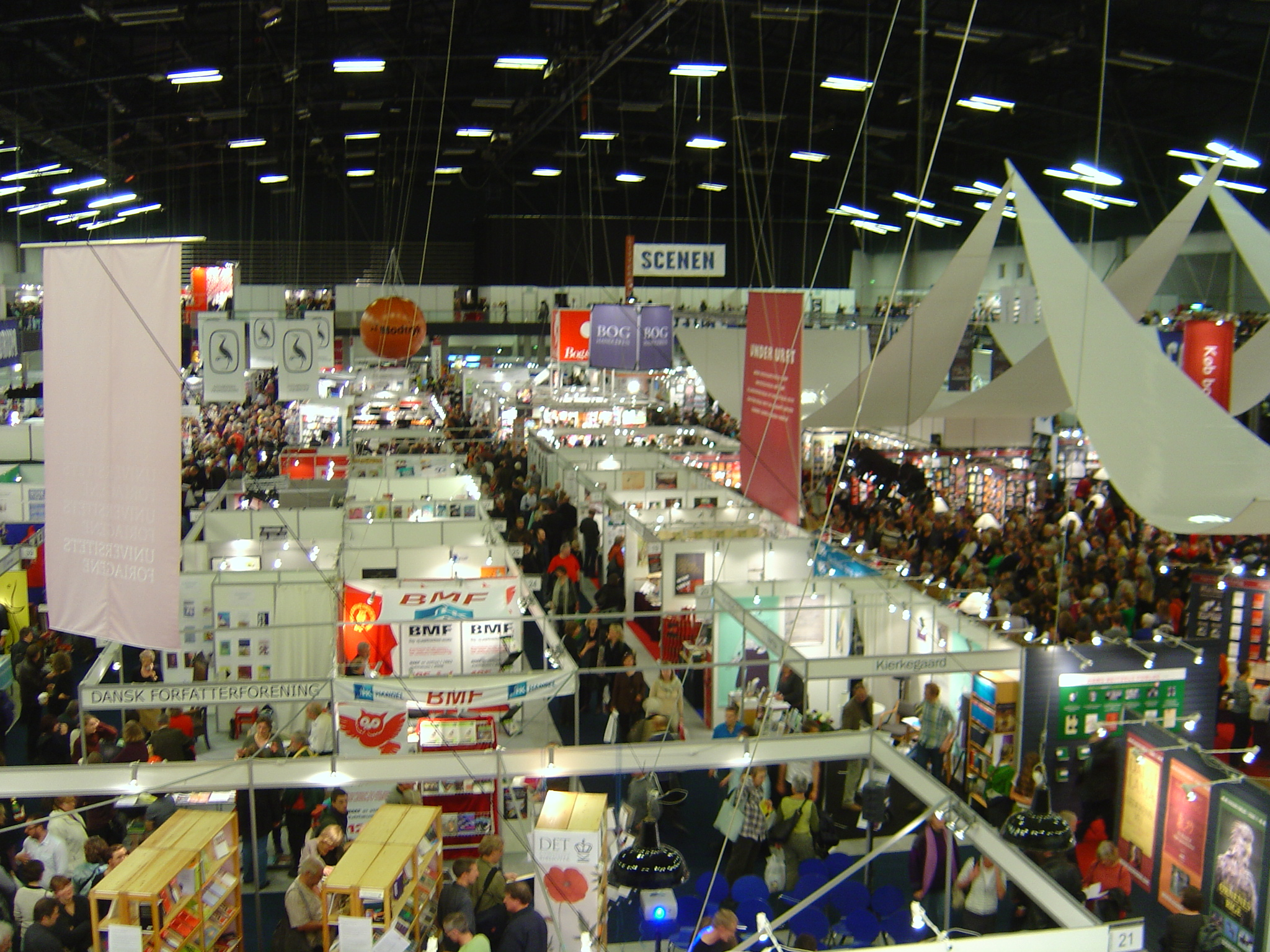 BogForum - overview of the annual Danish book fair on 14 November 2008. BogForum 2008 (November 14-16, 2008) was held in Forum Copenhagen, Copenhagen.